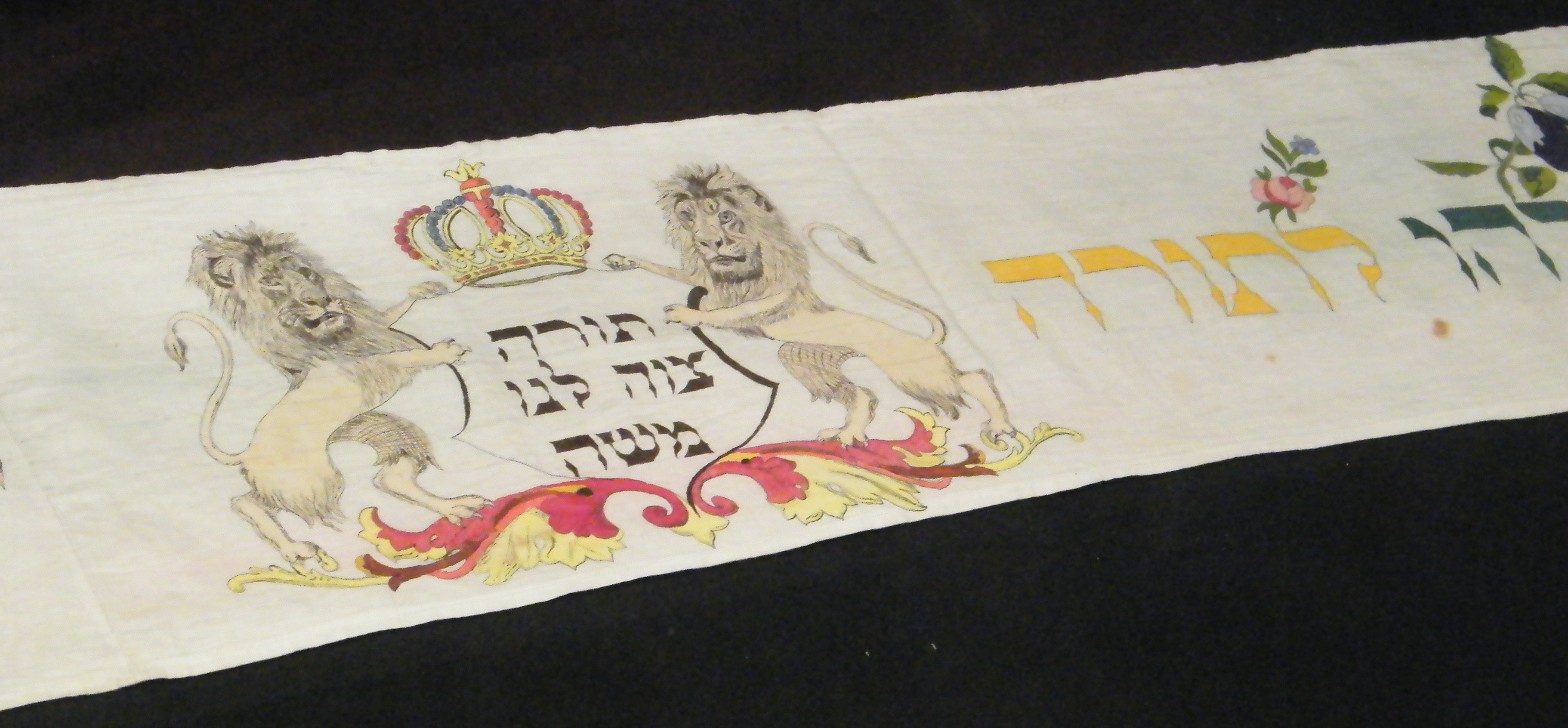 Torah Binder Basel (?), 1899 Painted on linen 139 x 9 in. (353.1 x 22.9 cm) The Jewish Museum, New York 1998-45 Wikipedia Loves Art at the Jewish Museum (New York City) This photo of item # 1998-45 at the Jewish Museum (New York City) was contributed under the team name "The_Grotto" as part of the Wikipedia Loves Art project in February 2009. Jewish Museum (New York City) The original photograph on Flickr was taken by cjn212—please add a comment to the original Flickr page whenever a use has been made on Wikipedia or another project. Project galleries on Flickr: this institution, this team